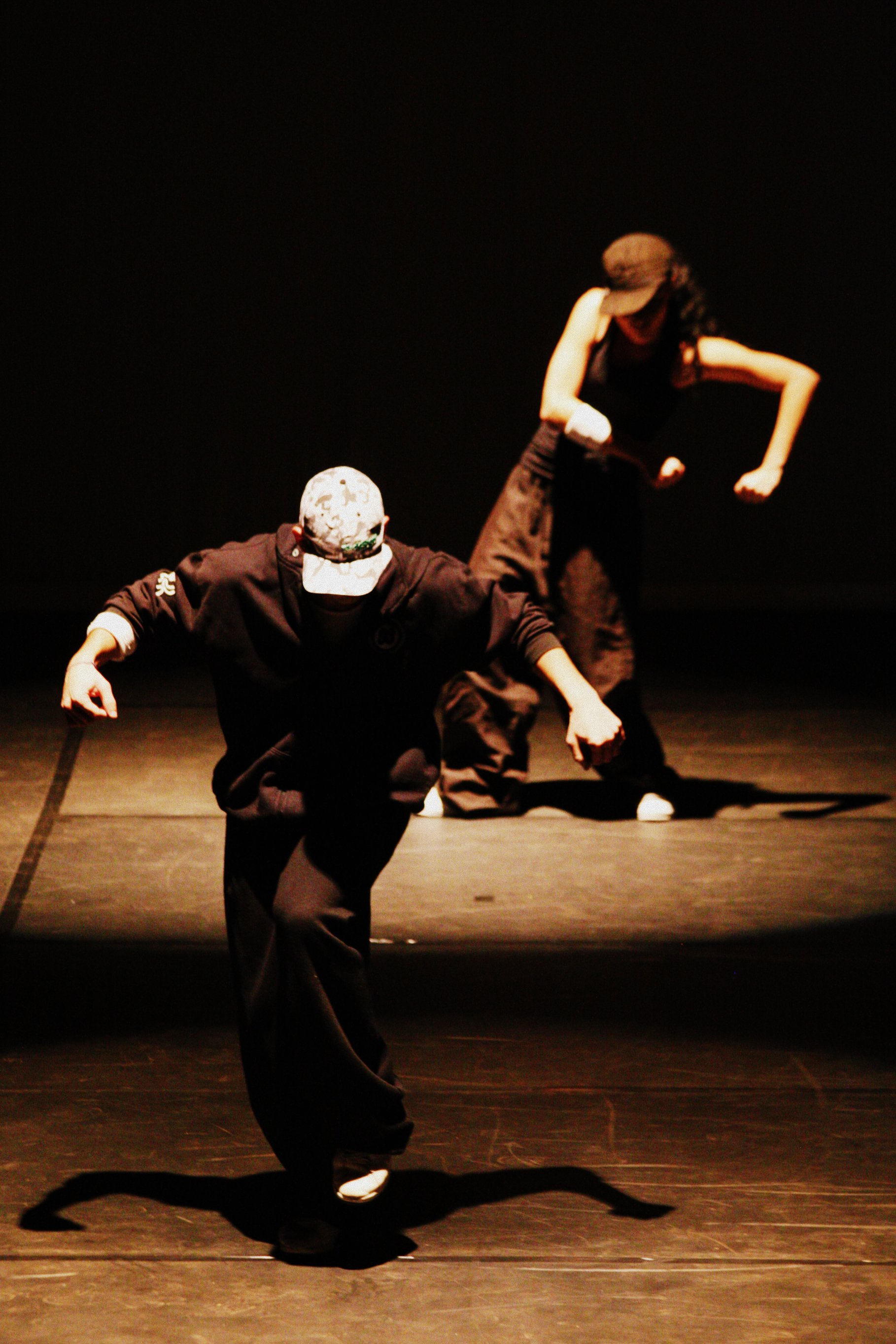 Murilo Resende and Patricia Sousa, two street dancers performing at the URBANOS dance contest in Distrito Federal, BR.